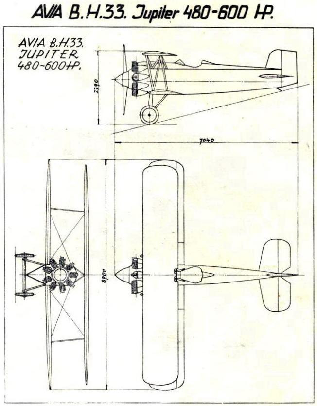 Aircraft Avia BH-33 - drawing